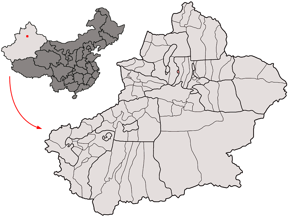 Location of Shihezi (pink) within Xinjiang autonomous region of China Map drawn in september 2007 using various sources, mainly : Xinjiang Uygur autonomous region administrative regions GIS data: 1:1M, County level, 1990 Xinjiang Counties map from